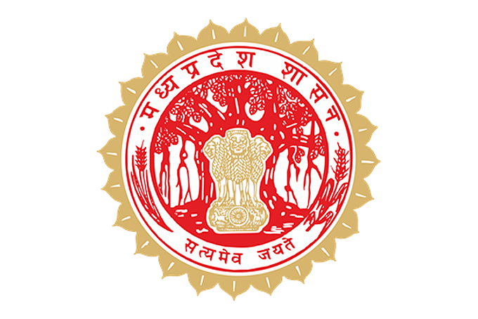 Madhya Pradesh Flag